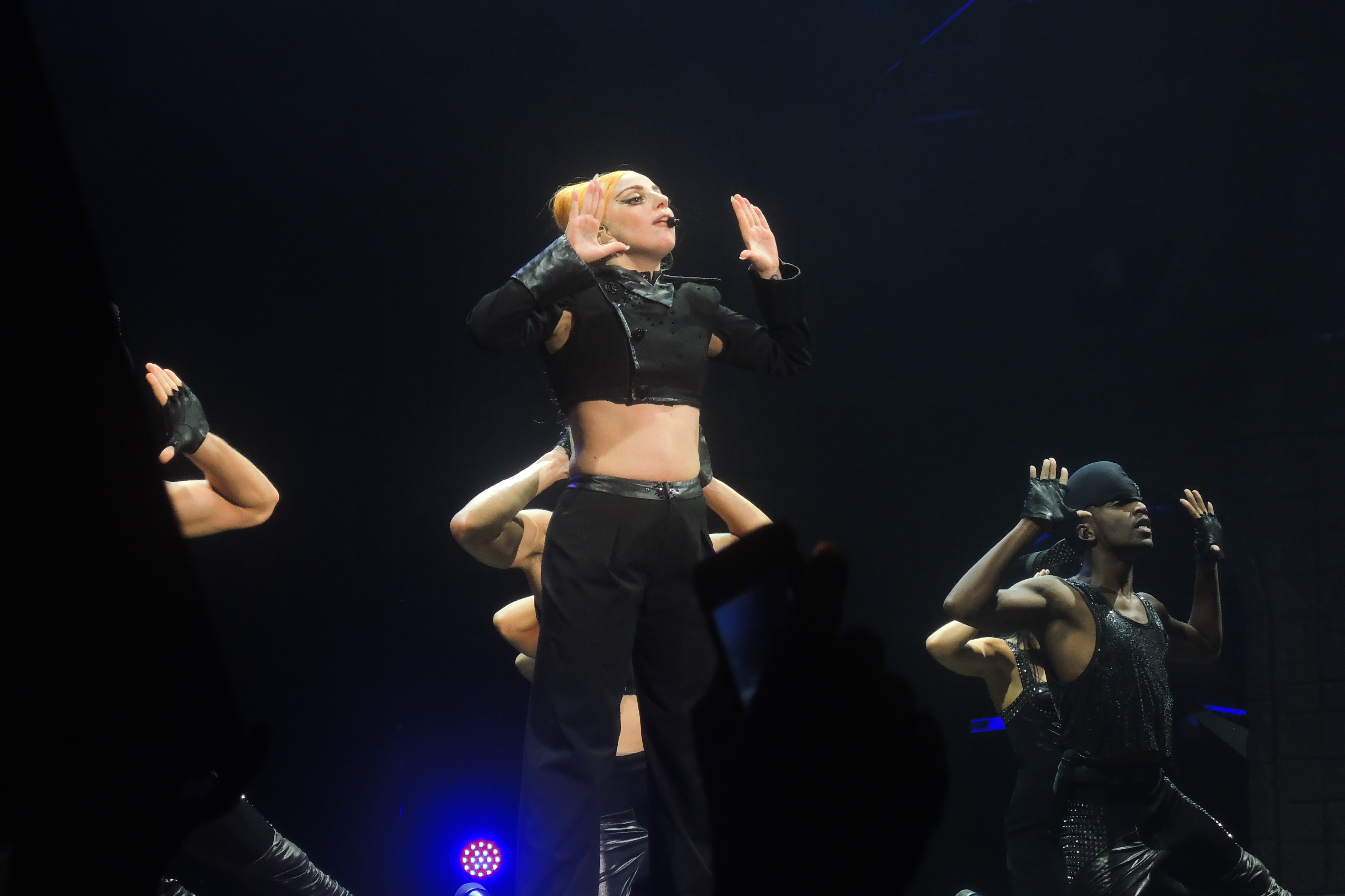 Gaga performing in Austria